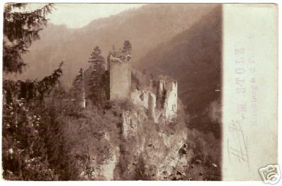 Frankenfels - Weissenburg